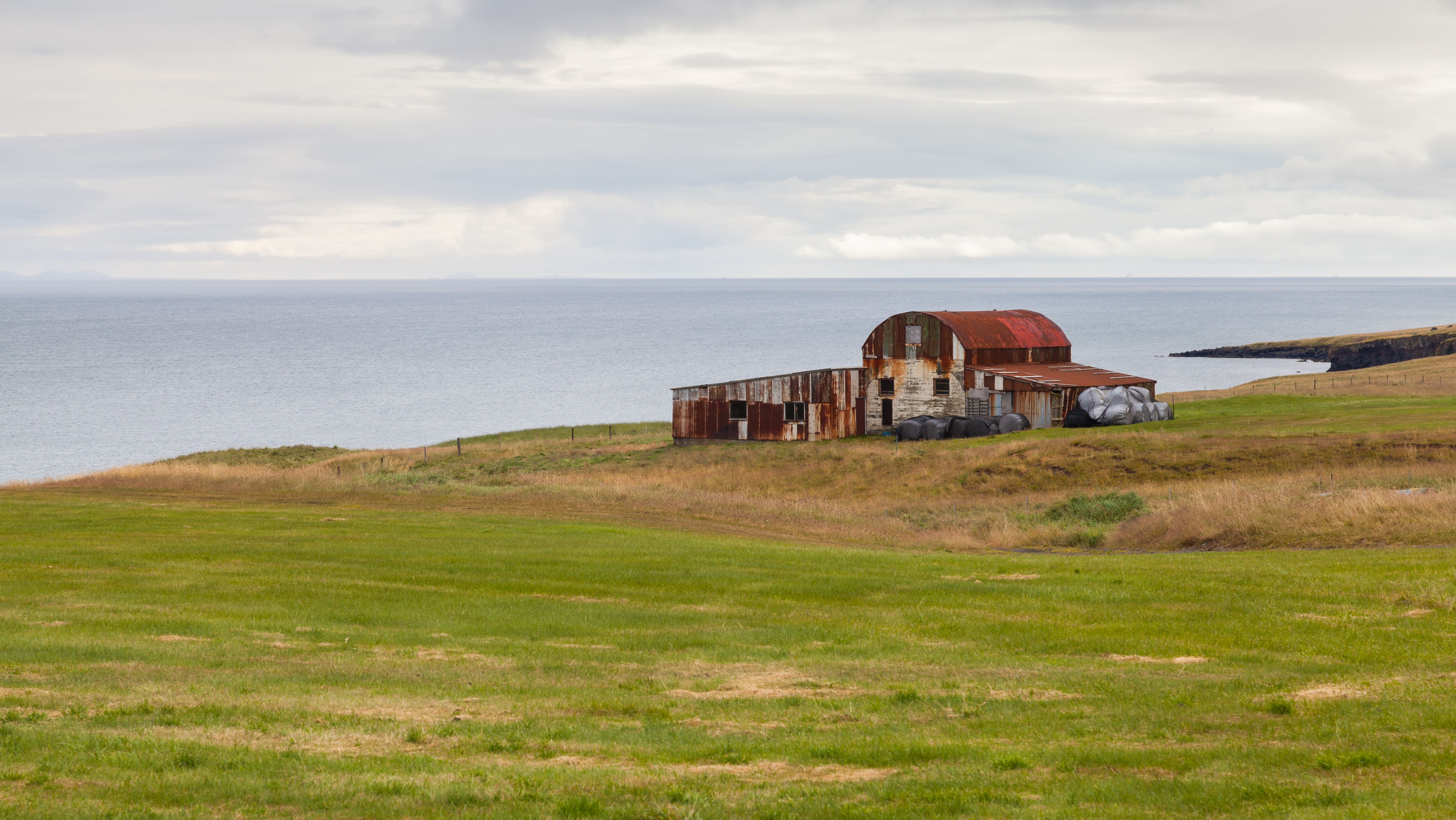 Farm in the peninsula of Akranes, Vesturland, Iceland